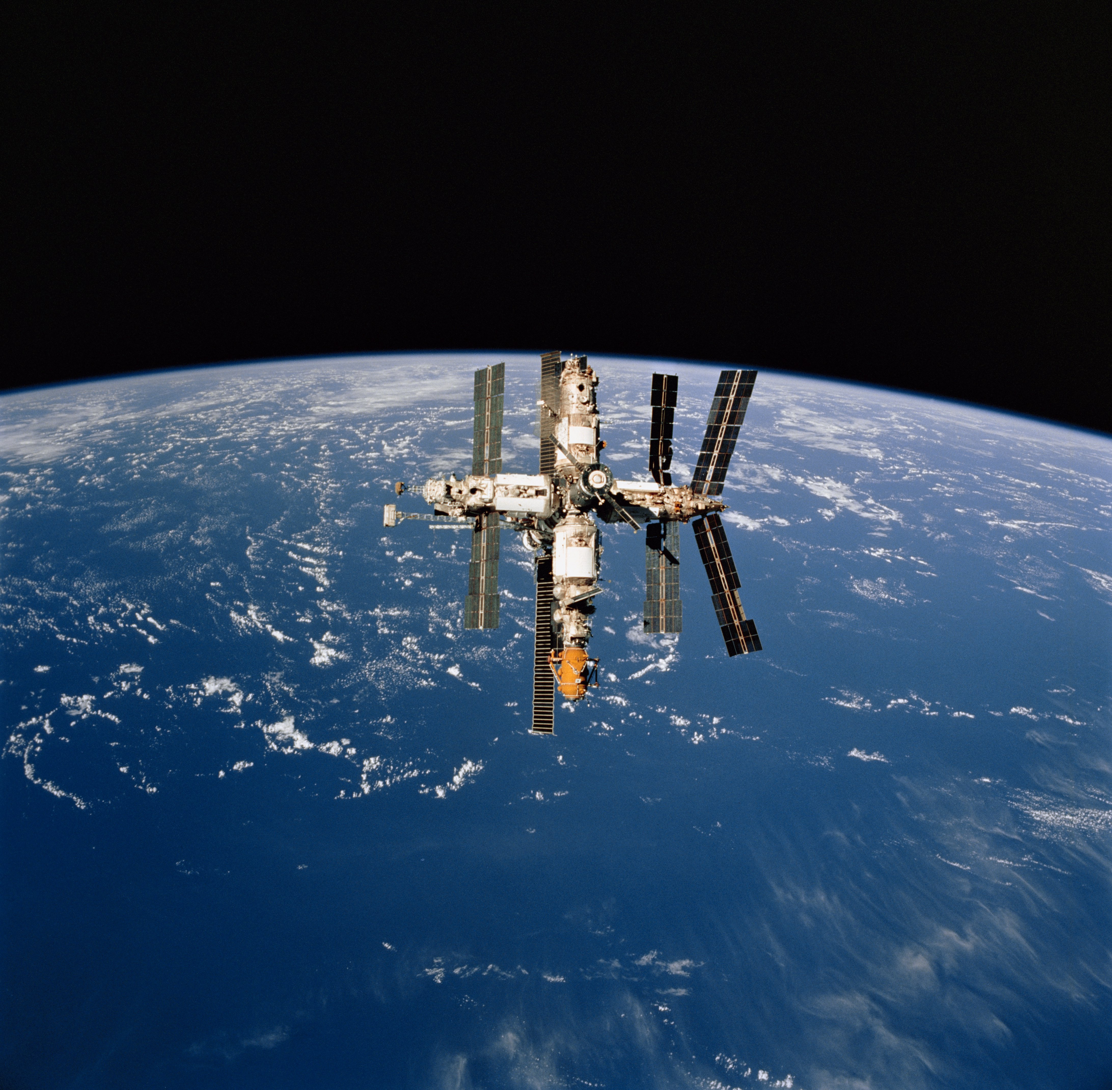 A survey of the Mir Space Station, viewed from the Orbiter Endeavor during STS-89. Image ID: STS089-714-072